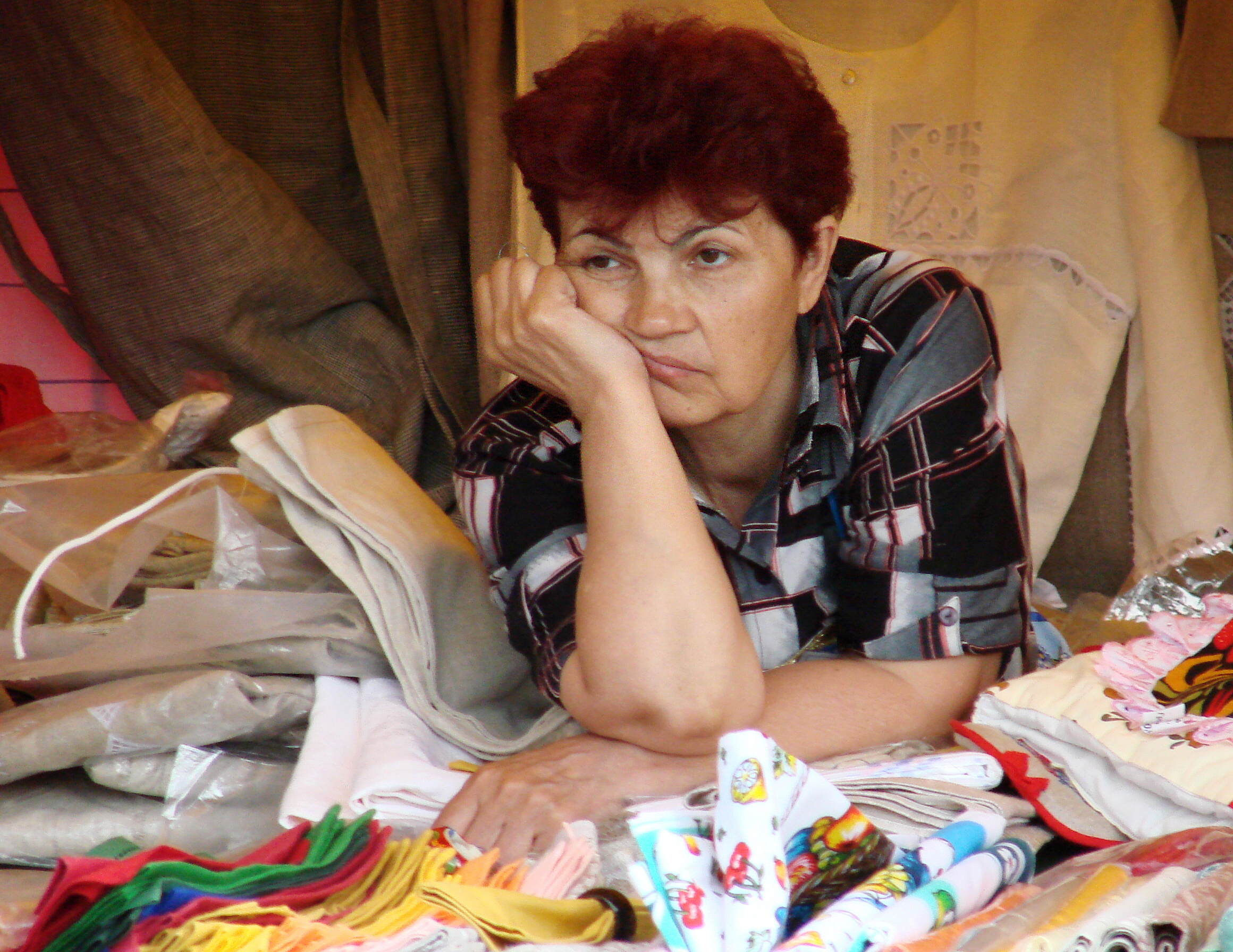 Crop of File:Souvenir Seller - Moscow - Russia.JPG focusing on woman.